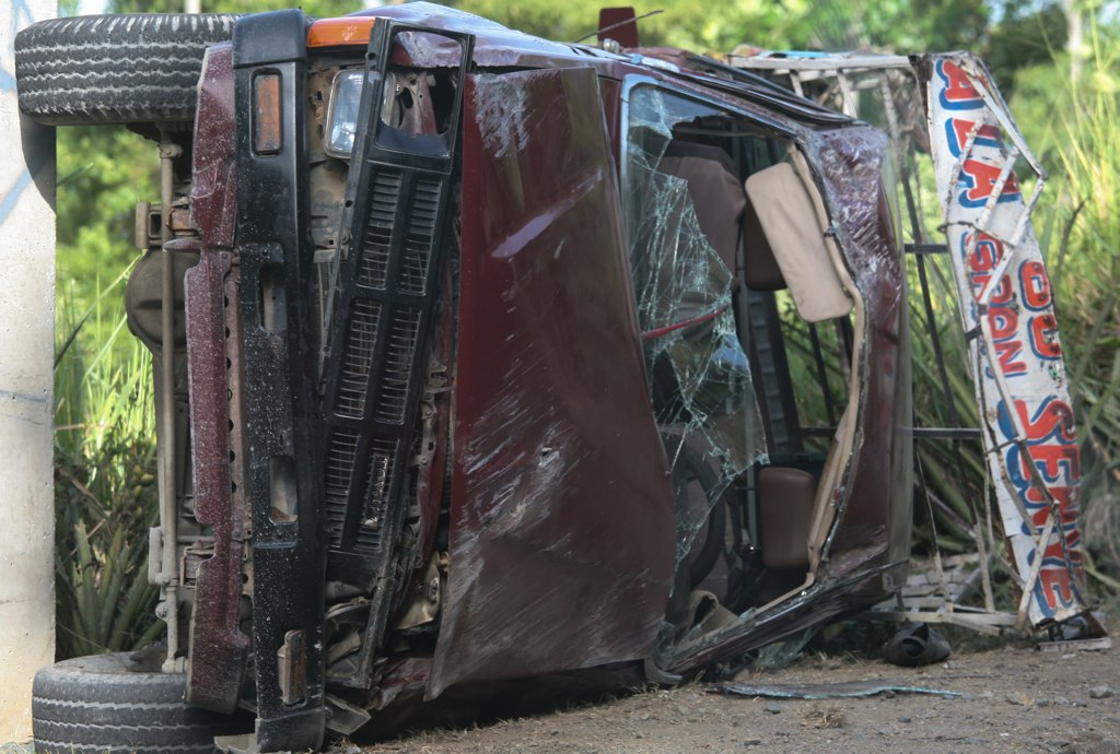 Hit the Corner Too Hard